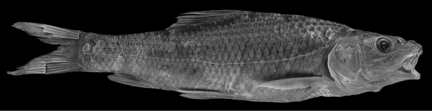 Holotype of Barbus continii = Carasobarbus canis x Barbus longiceps preserved specimen (SL=165 mm), Lake Tiberias (MCSN 22300).